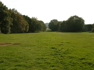 Thegooner90 Author